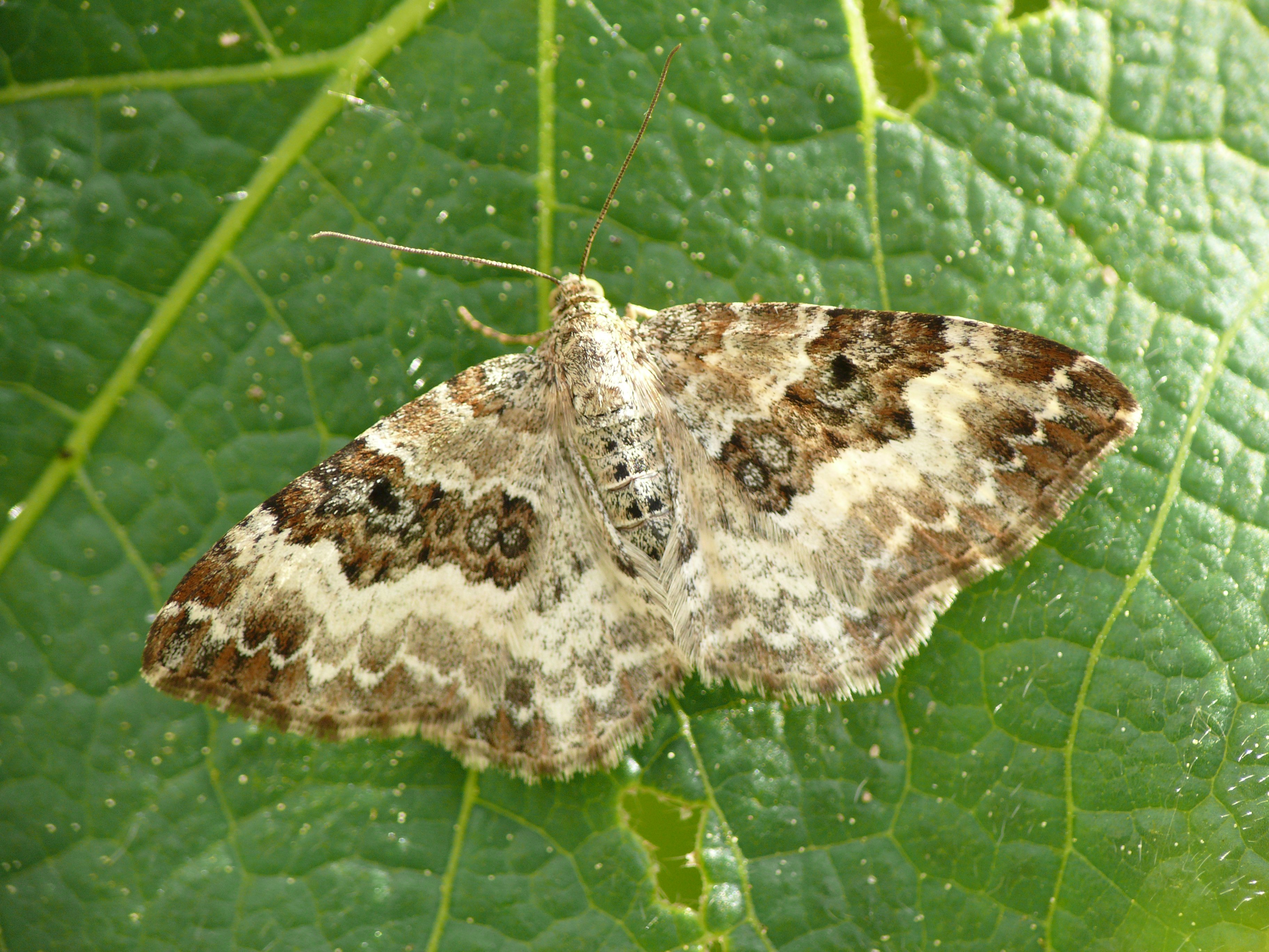 Common Carpet (Epirrhoe alternata), Landkreis Ebersberg, Bavaria, Germany